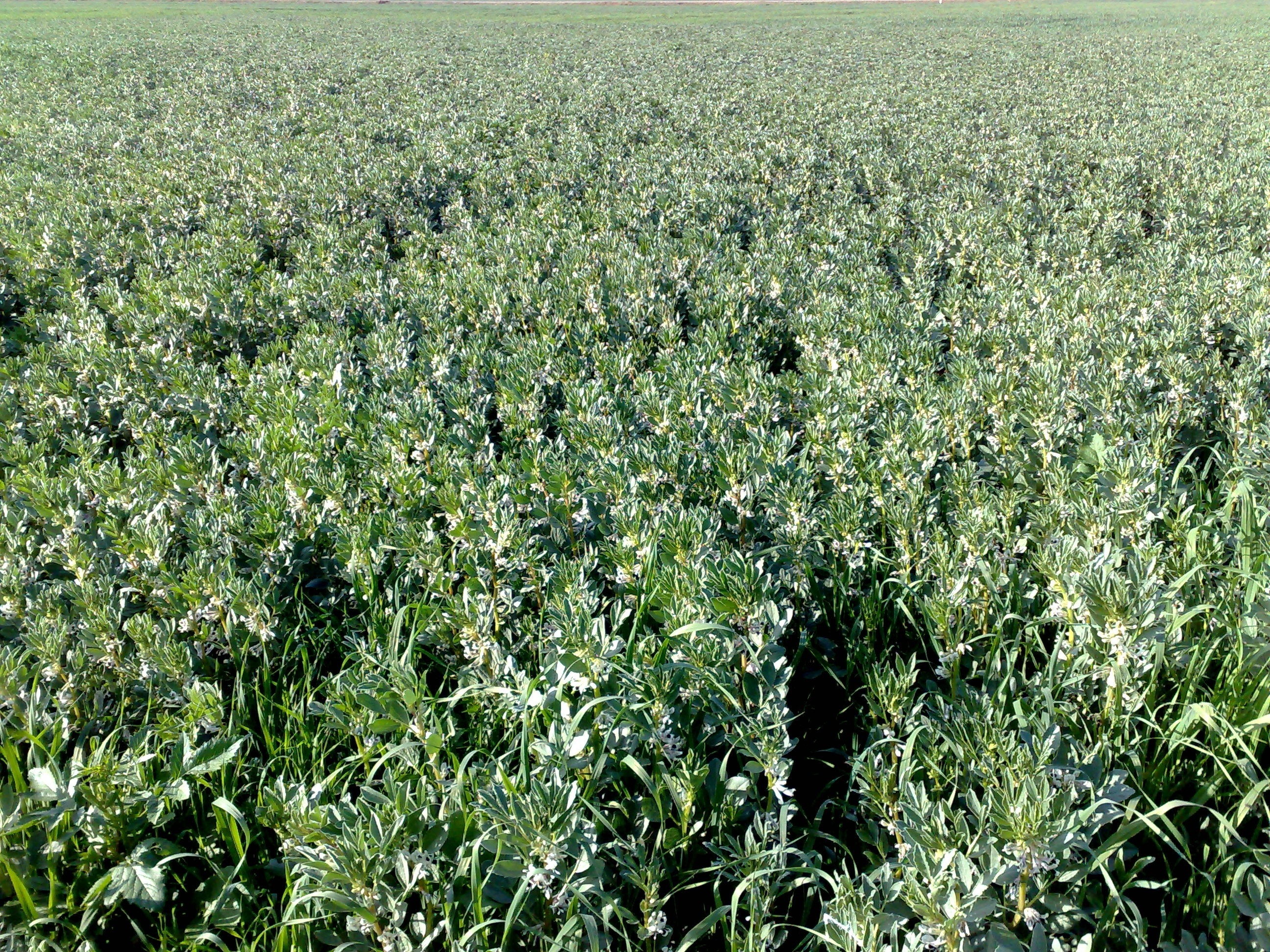 حوض اللوكوس 3